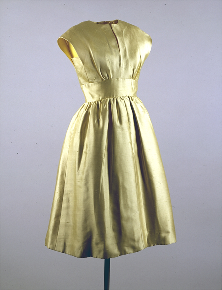 Designer: Gustave Tassell (American, born 1926) Date Made: 1962 Materials: silk shantung Dimensions: length: 41 1/4" center back A dress in pale yellow silk shantung. The dress has cap sleeves with a slit opening at the neckline and a 3 inch wide band around a fitted waist with a balloon skirt. This dress was worn by Jacqueline Kennedy during an elephant ride in Jaipur, India, March 19, 1962. During a two-day holiday as the guests of the Maharaja and Maharani of Jaipur, Jacqueline Kennedy met with members of the Peace Corps and later was joined by her sister for an elephant ride on the grounds of the Amber Palace.